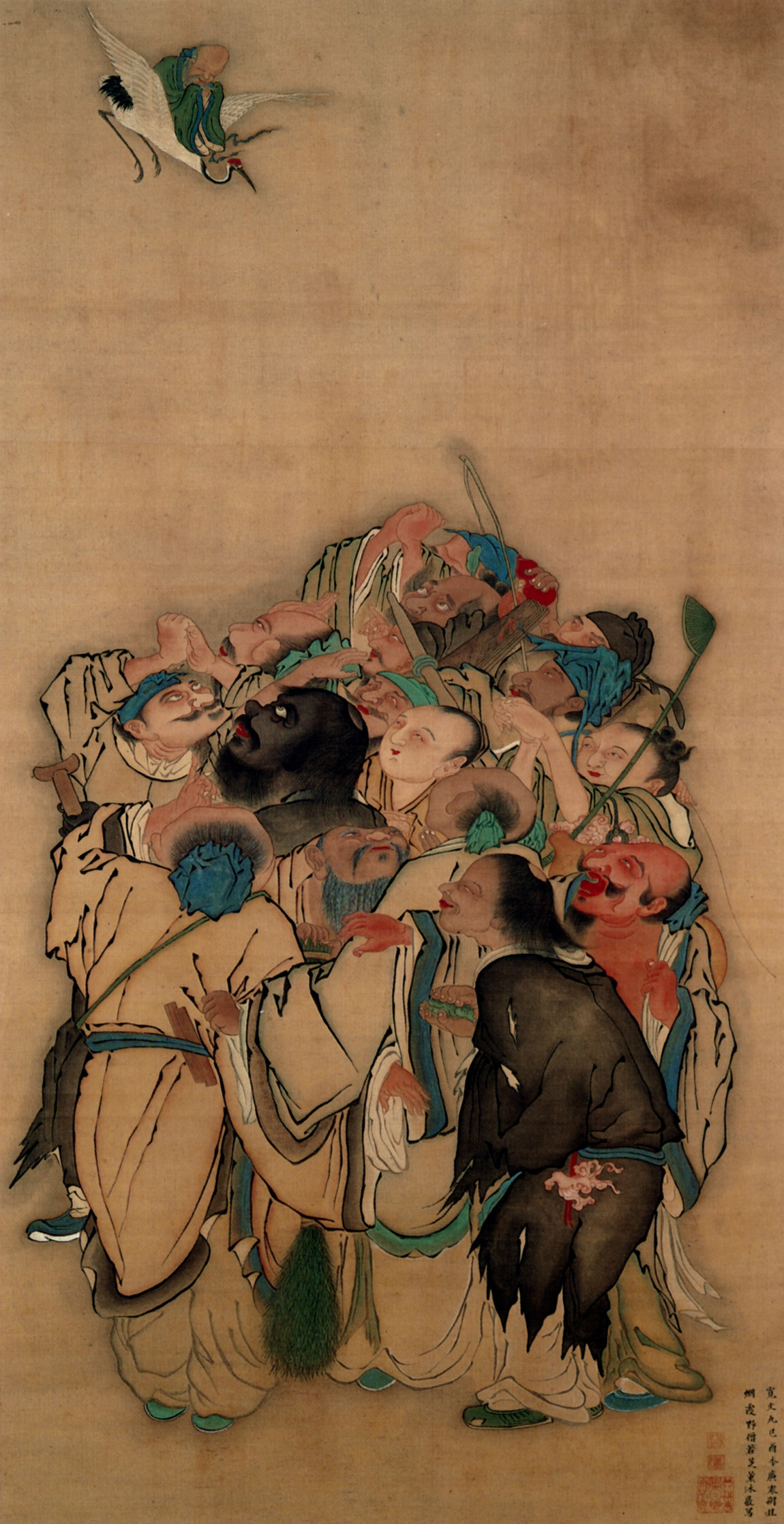 Immortals Gatherring to Worship the God of Longevity,Kawamura Jakushi,Hanging scroll,Color on silk